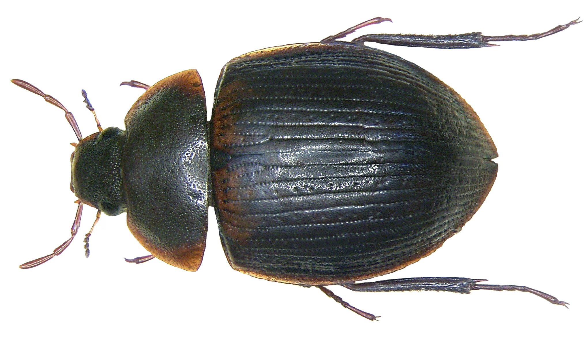 Hydrocassis scapulata, a beetle in the family Hydrophilidae